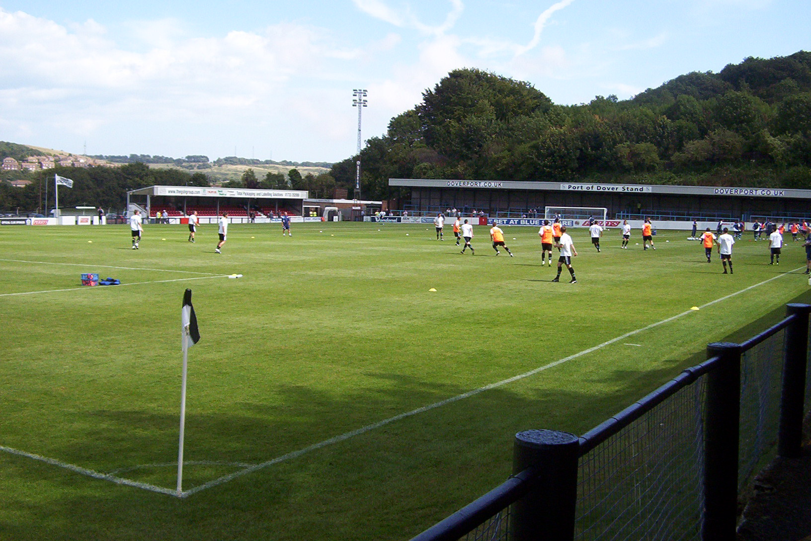 Crabble Stadium, photographed by myself